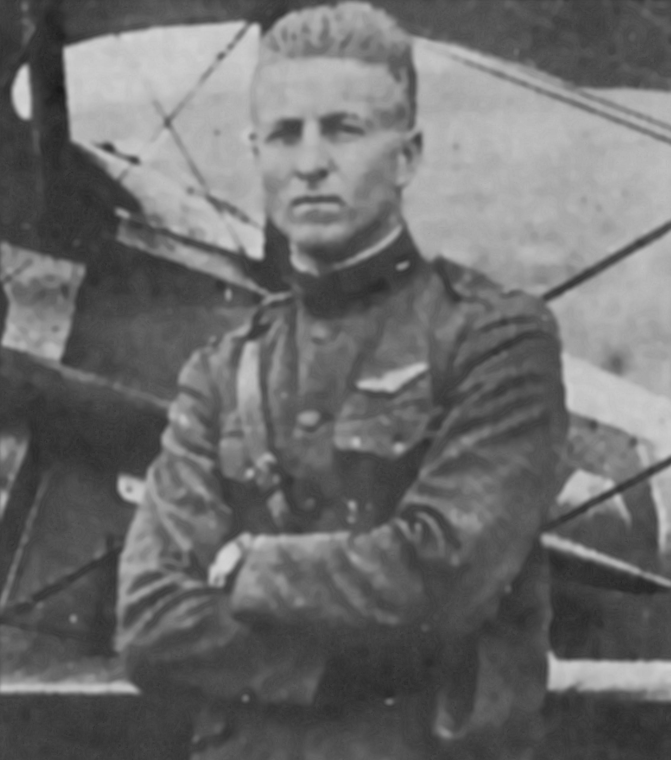 Image of Frank Luke Jr. from the public domain book A Concise History of the U.S. Air Force by Stephen L. McFarland.